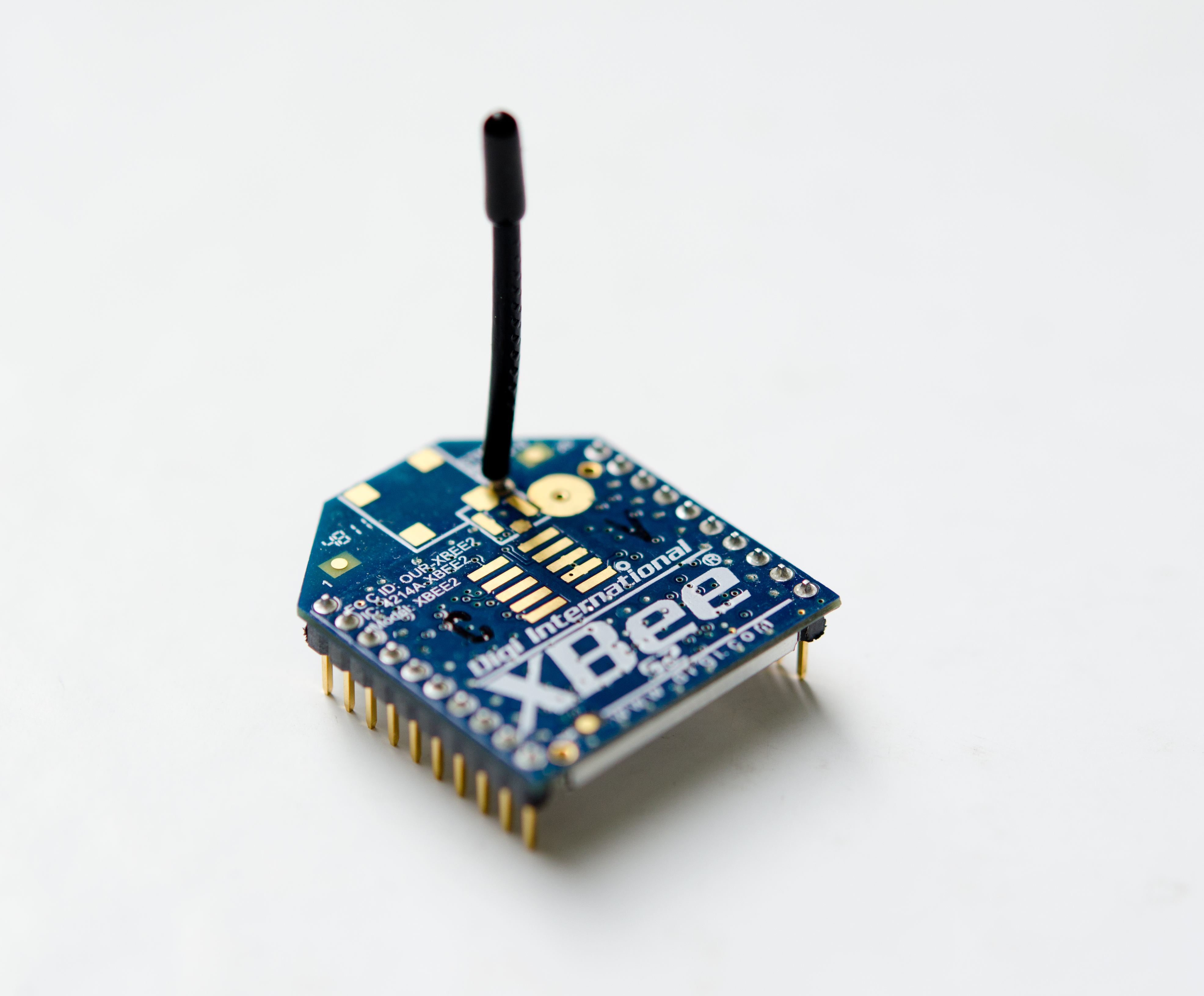 An XBee Series 2 radio with a wire whip style antenna, showing the top of the module, with some of the pins visible.